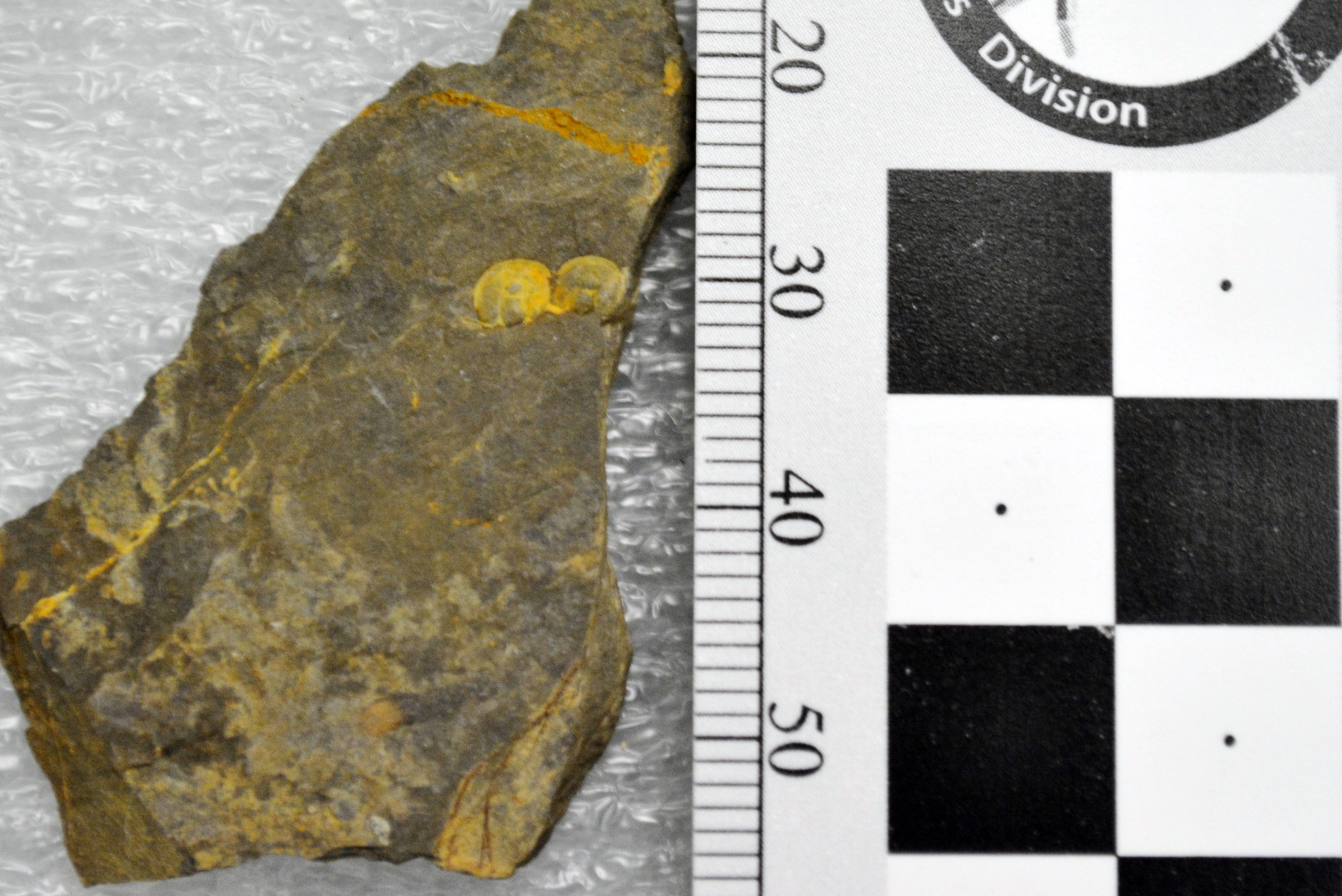 YELL-165705: A small, Agnostid trilobite (YELL-165705) head is shown here. How did these little arthropods survive 500 million years ago? From their lack of eyes and poorly suited swimming body, scientists infer that they were most likely pelagic and floated around the open ocean. This particular Agnostid trilobite is over 500 million years old and was collected from the Wolsey Shale from Mount Holmes in Yellowstone National Park. Scientists use clues from the trilobites' physical features and the type of rock they were fossilized in, to infer the paleo-environment of the area, which at this time would have been described as a moderate to deep-water environment. Collecting any natural resources, including rocks and fossils, is illegal in Yellowstone. Photo by Megan Norr; March 2016; Catalog #20798d; Original #USNM_165705